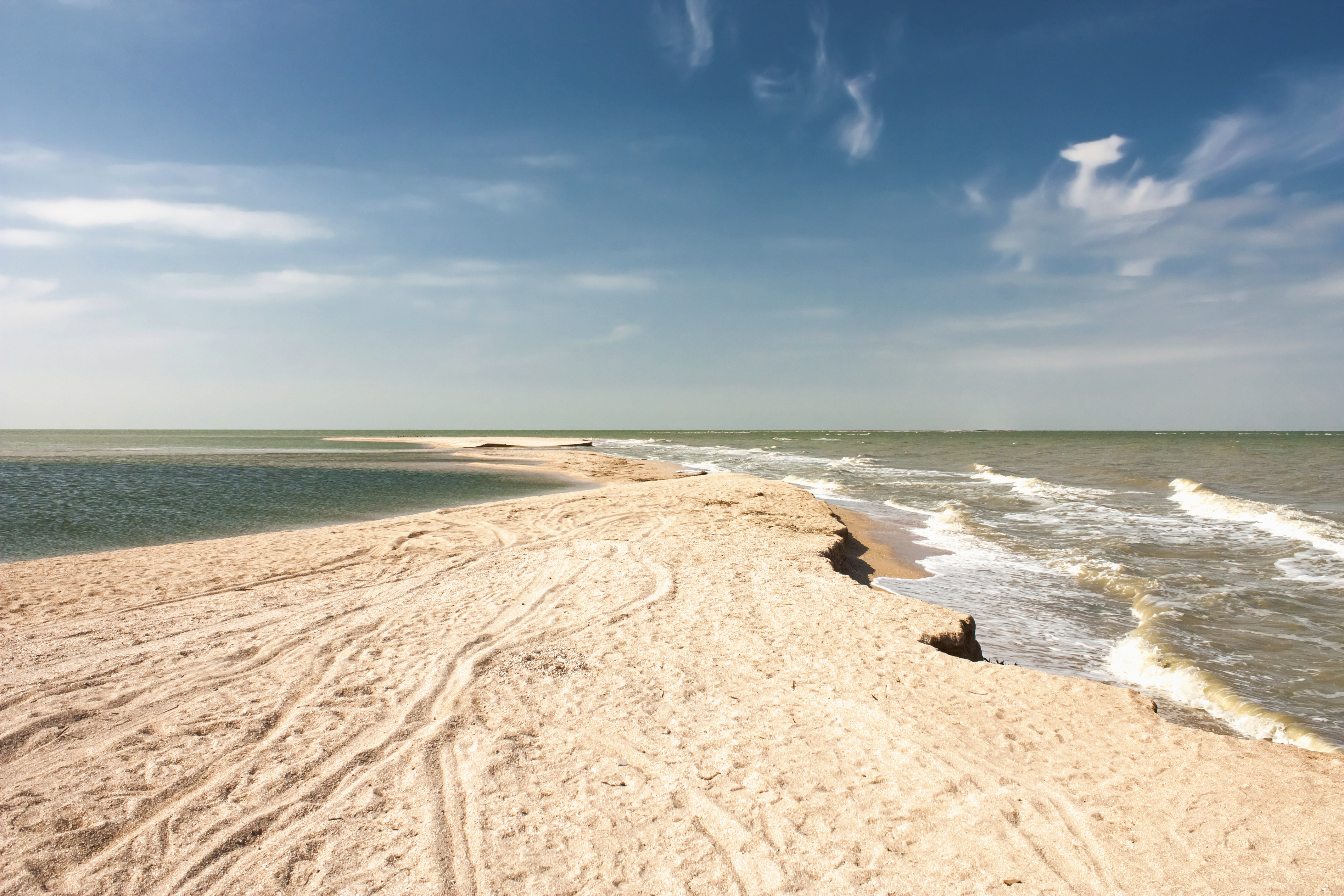 Long Spit Sea of Azov, Yeisk district, Krasnodar region